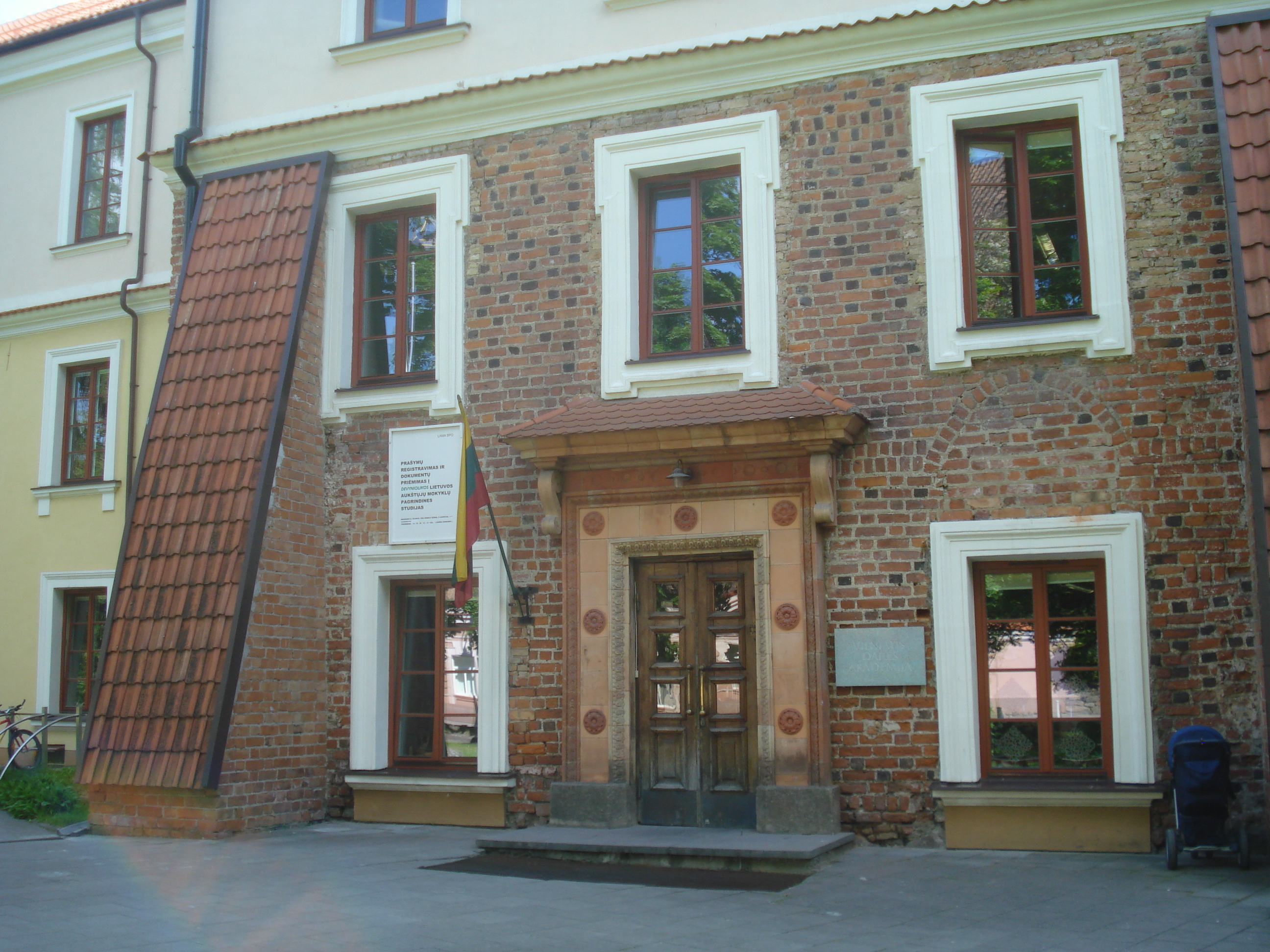 Vilnius Art Academy. Main entrance. Maironio 6